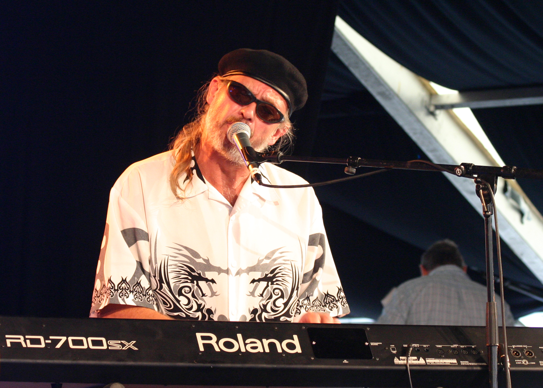 Reidar Larsen performs at Notodden bluesfestival, Norway, 2008